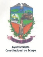 Coat of arms of municipality of Ixtapa, Chiapas